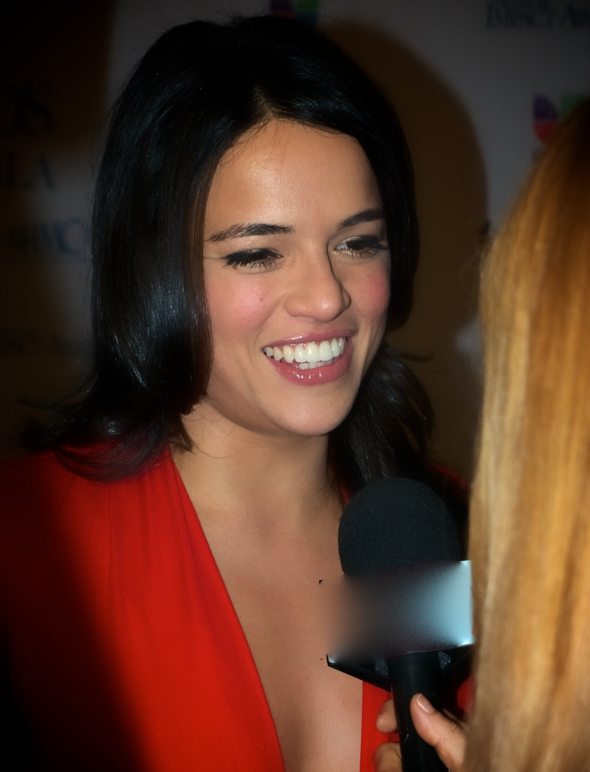 Michelle Rodriguez at the National Hispanic Media Coalition 2012 Impact Gala.